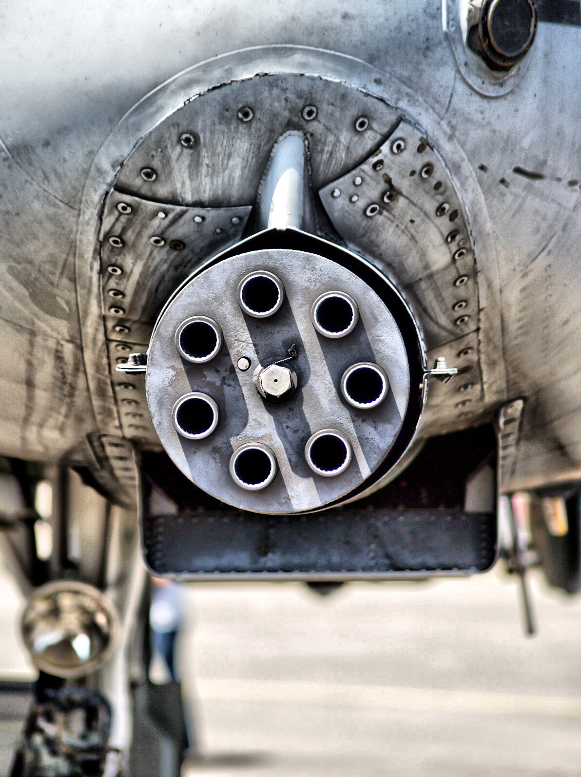 A-10 Thunderbolt II at the Air Expo 2008, McChord AFB